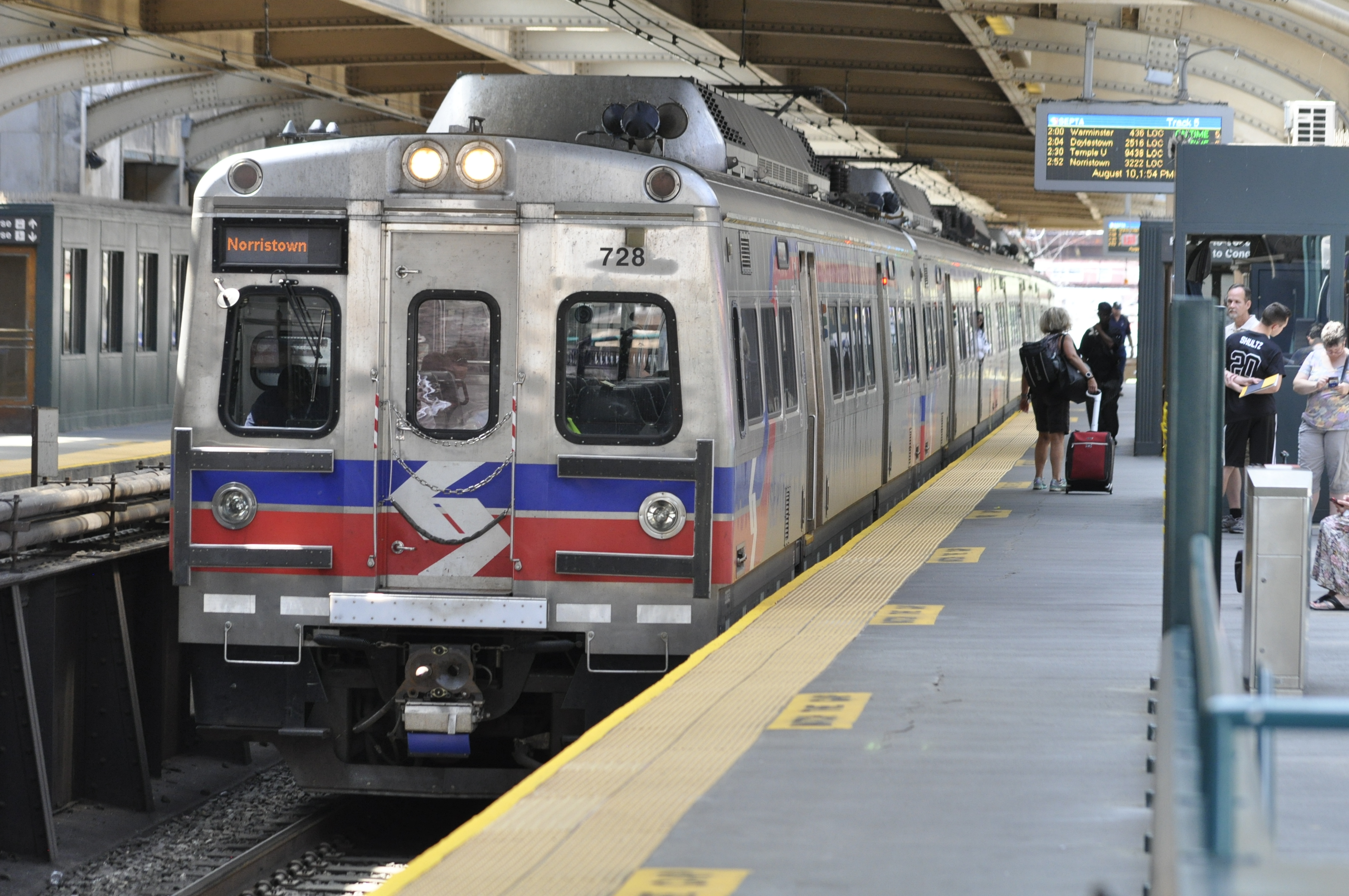 30th Street Station in Philadelphia, in August 2019, with train.